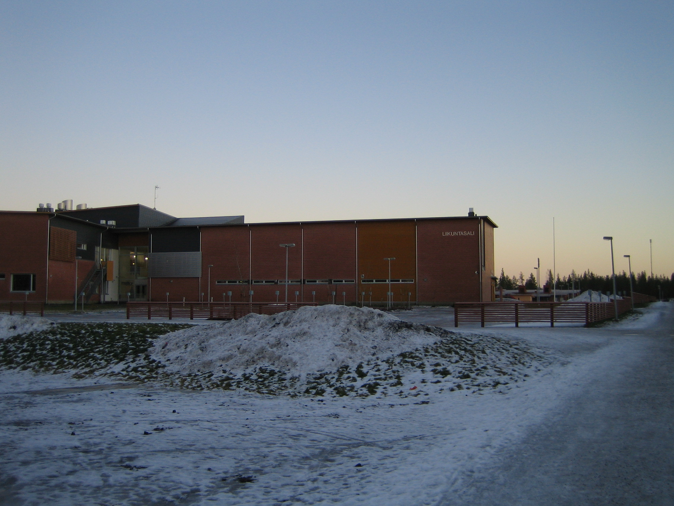 Laivakangas School in Kiiminki, Finland.